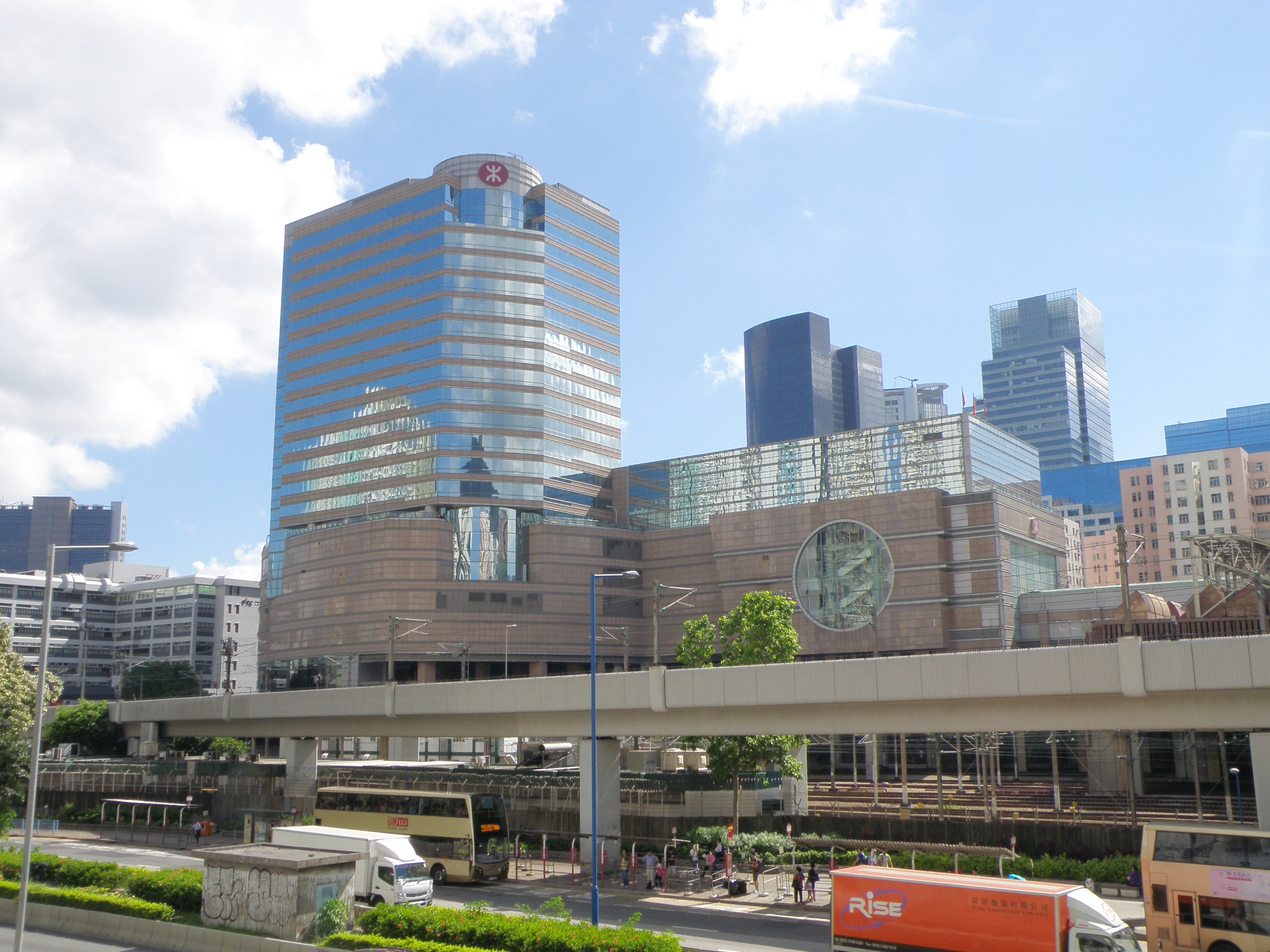 MTR Headquarters Building in Kowloon Bay, Hong Kong.